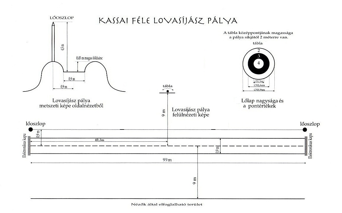 Kassai style horseback archery course